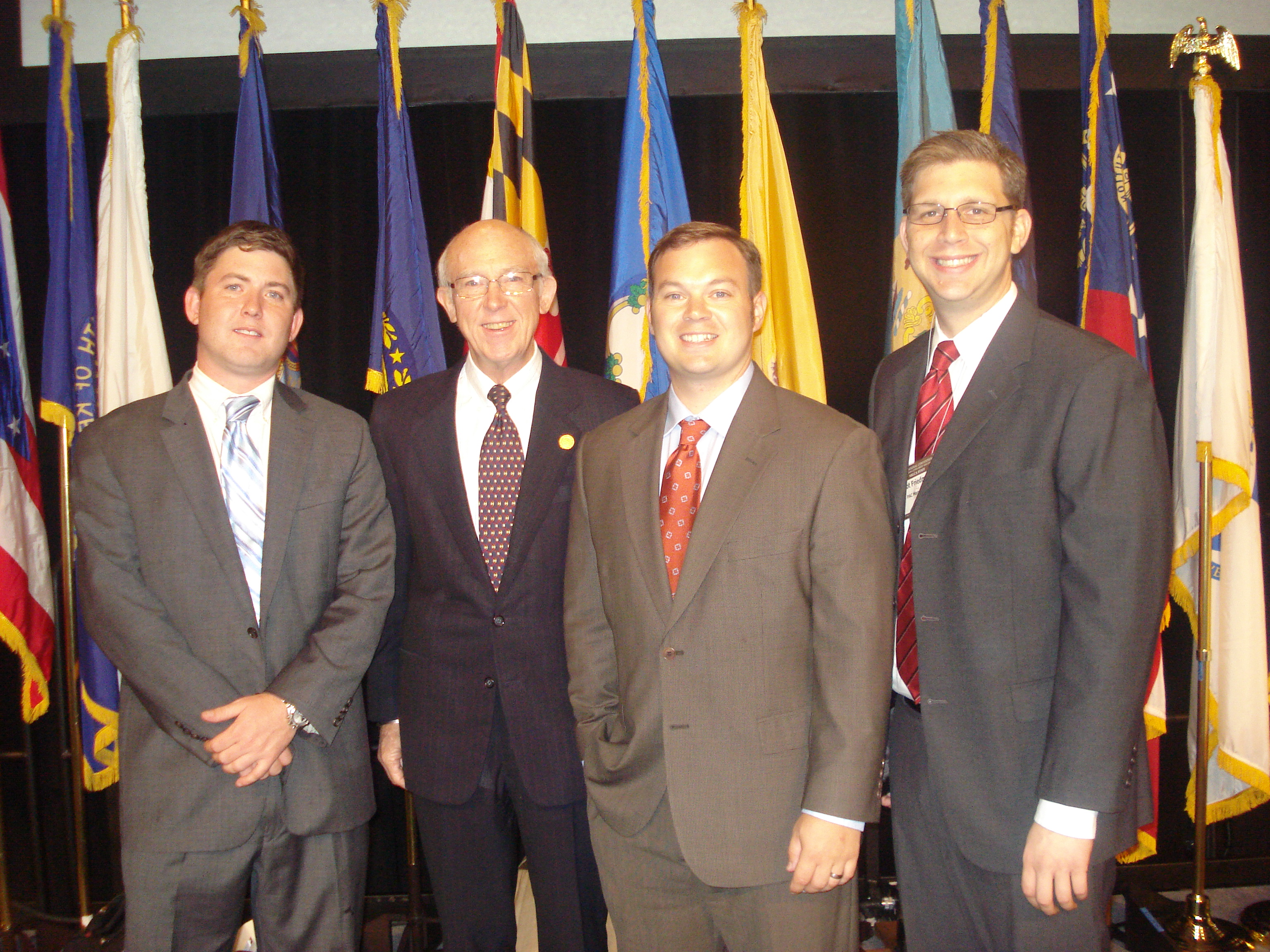 NRLCA Legislative staff